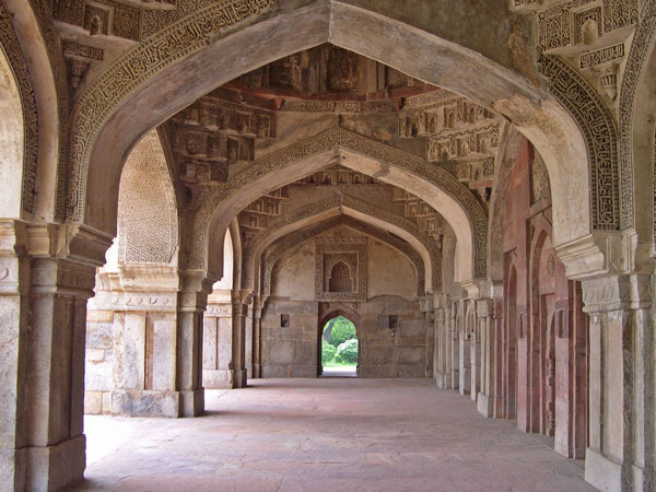 Bara Gumbad Mosque, Lodi Gardens - New Delhi, India